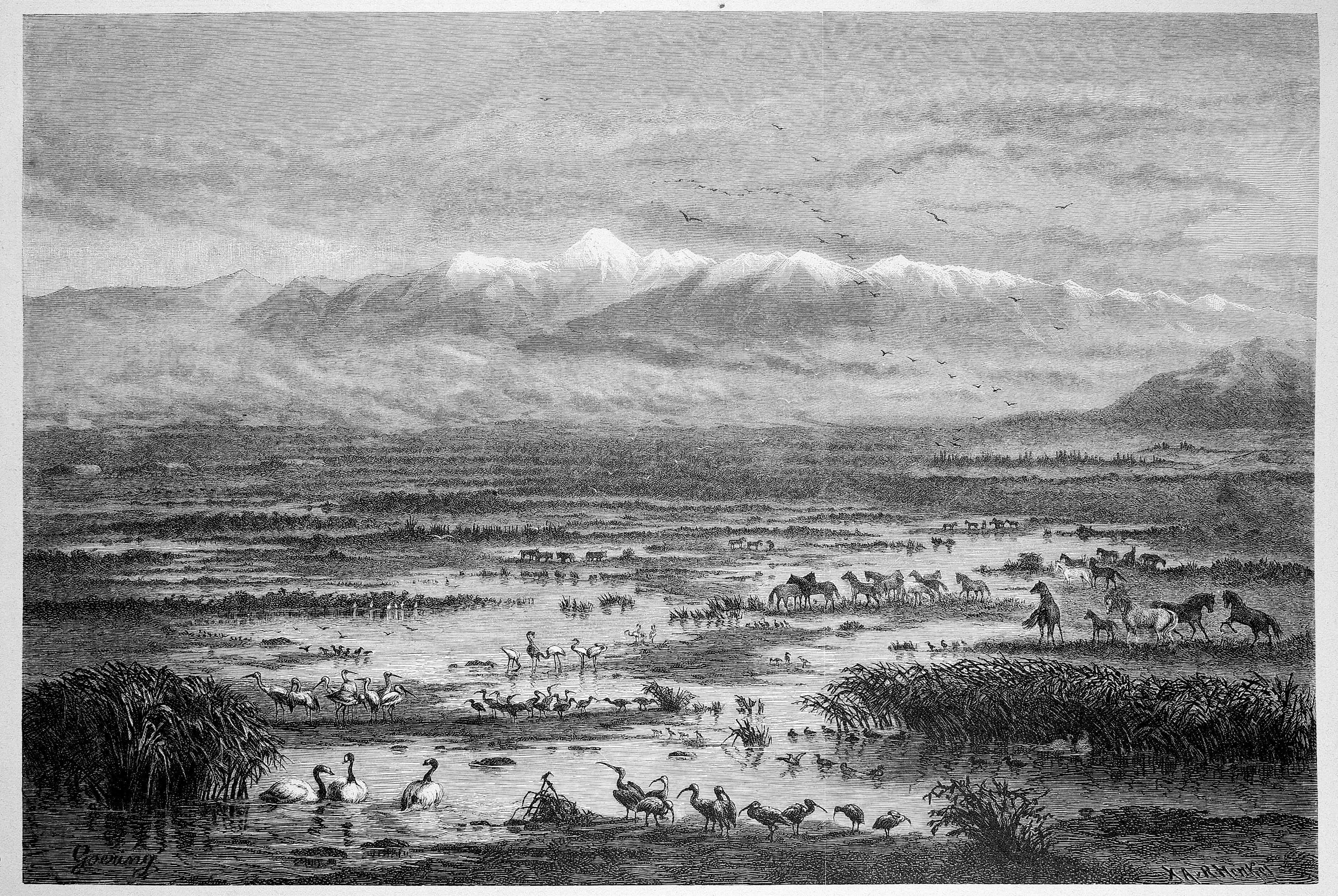 caption: "Sumpfgegend bei San Carlos in der Provinz Mendoza. Nach der Natur gezeichnet von A. Goering."